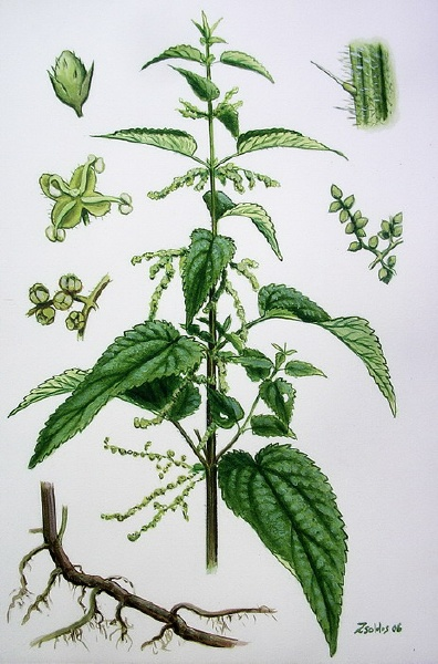 Urtica dioica